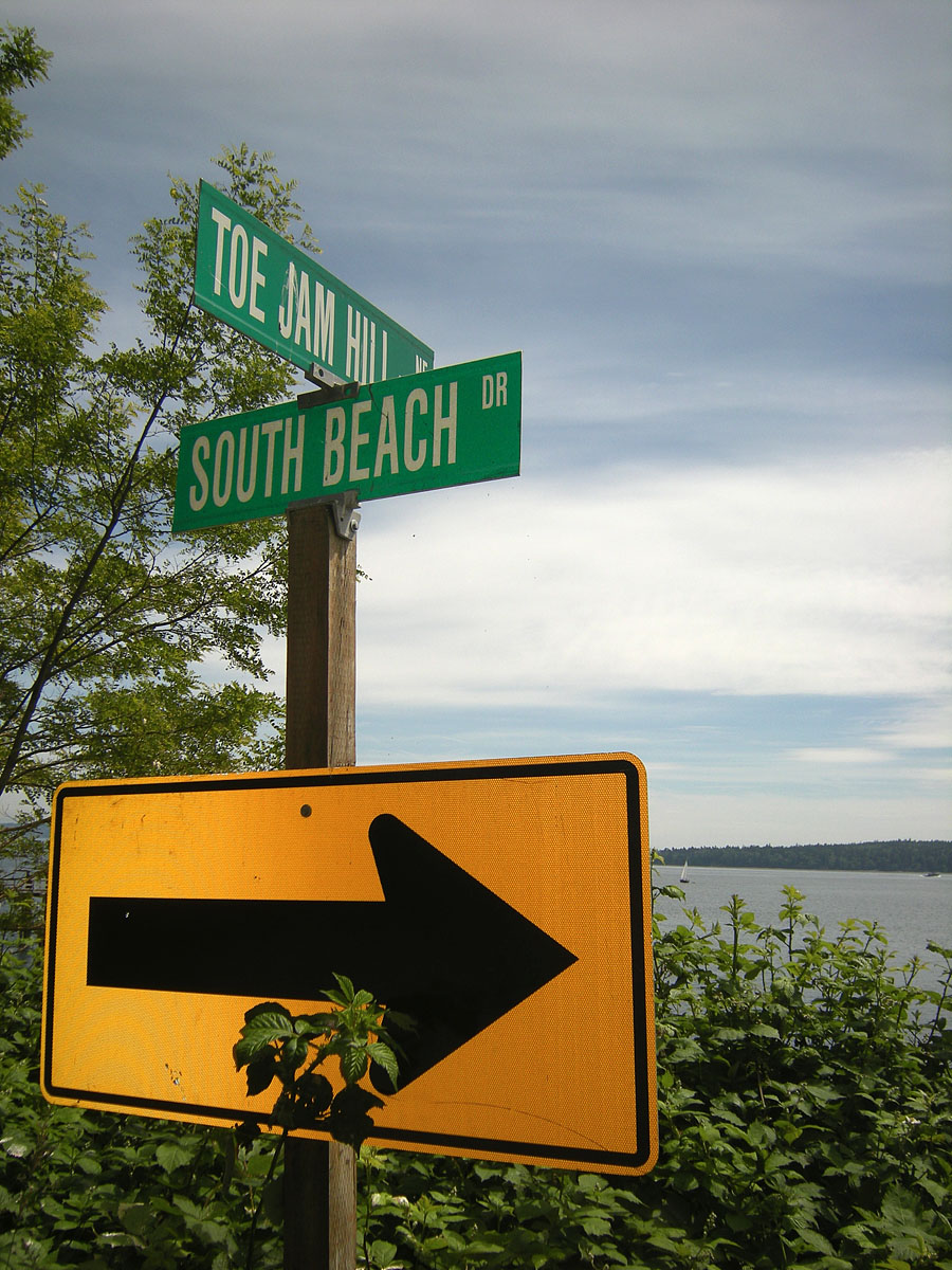 Toe Jam, our favorite hill